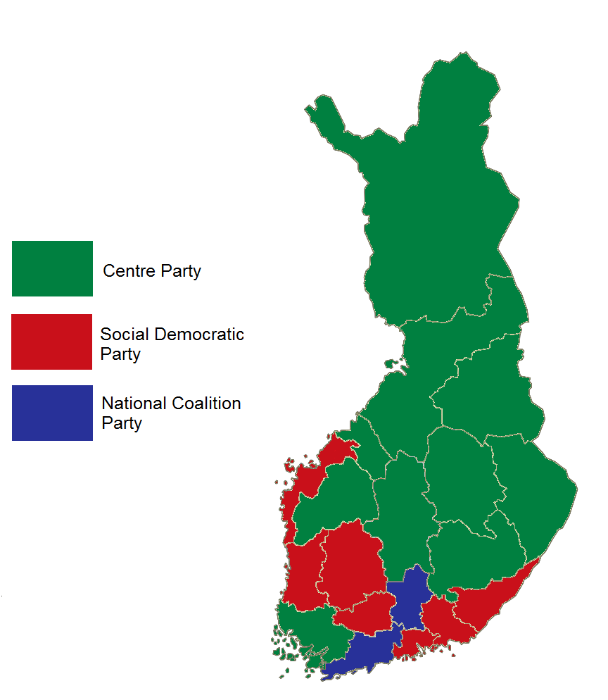 Finnish parliamentary election results by province, 1991